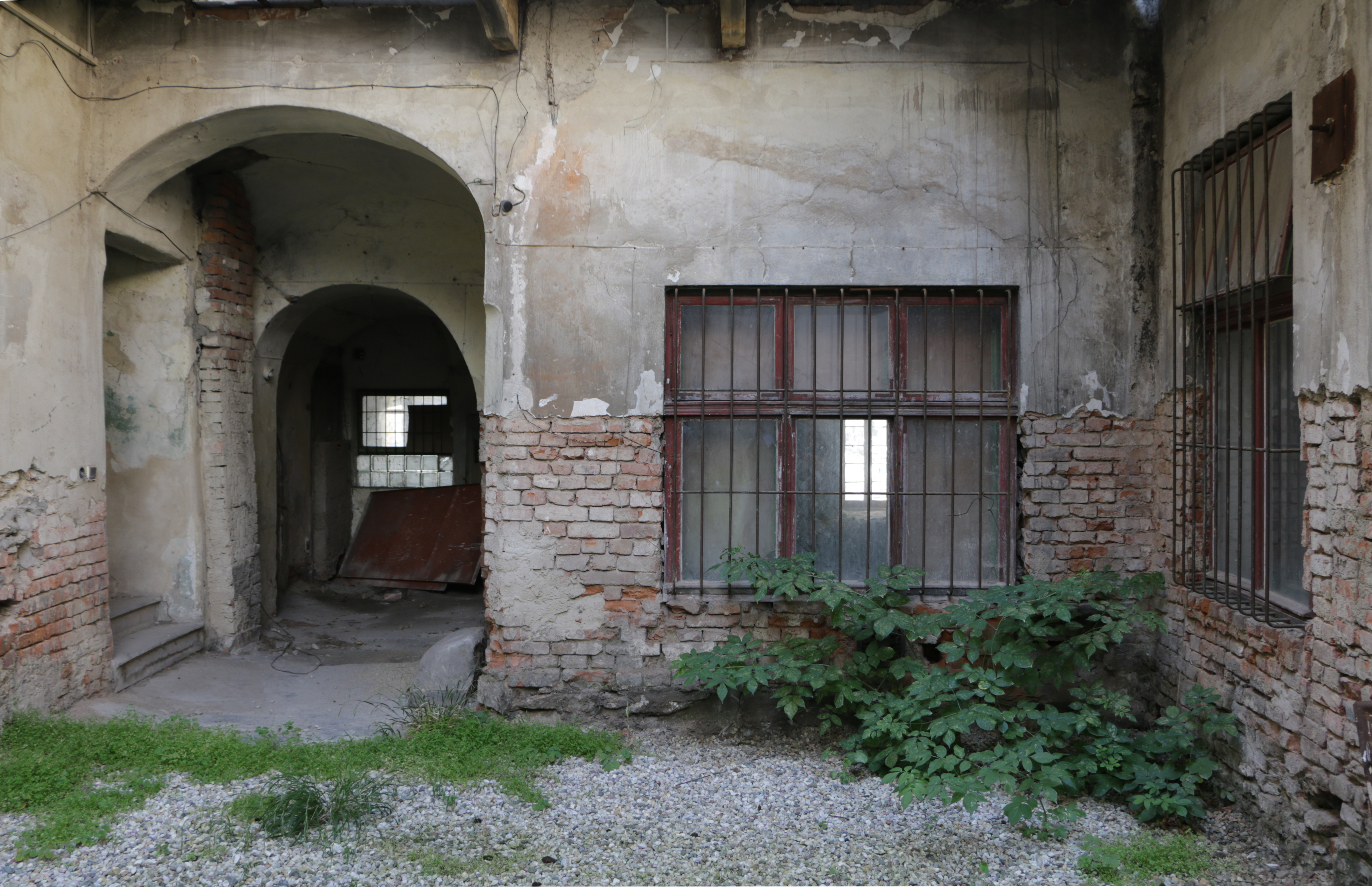 Courtyard inside the Lang's house, Litovel, the Czech Republic.